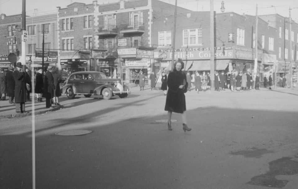 We see the Queen Mary Road near the Decarie Boulevard in Montreal. "Tobacco Nuway Shops" is located at the intersection of these two arteries.